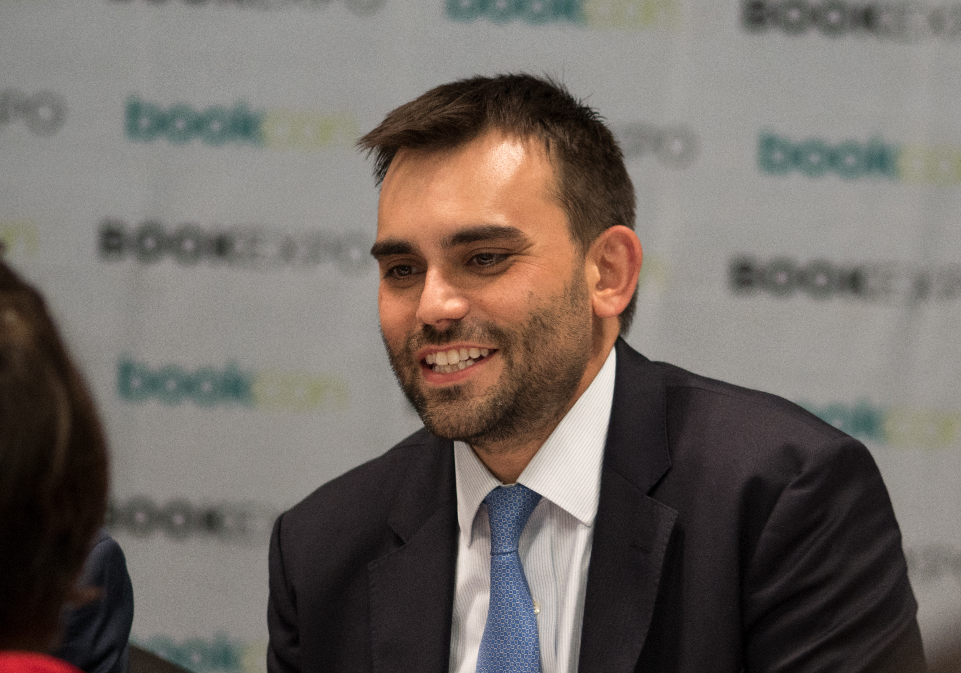 Andrew Aydin BookExpo America 2018 at the Javits Convention Center in New York City.